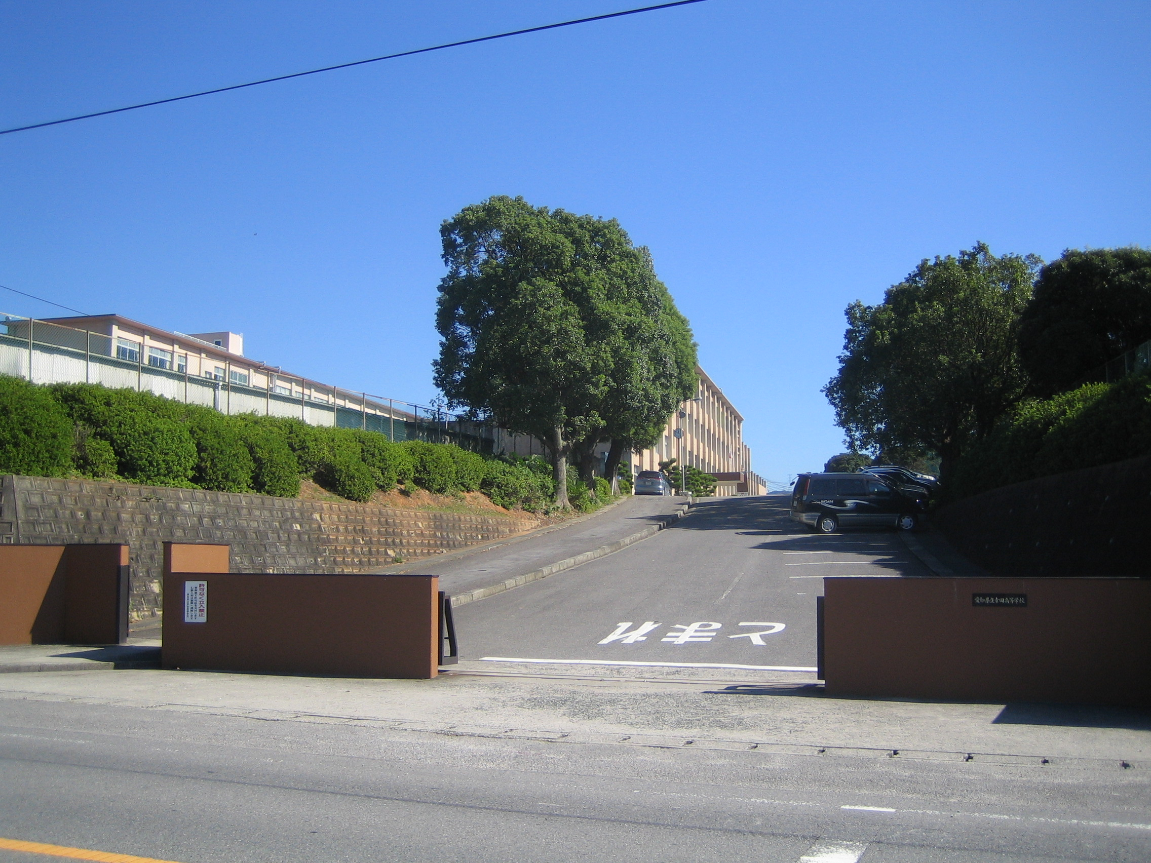 愛知県立幸田高等学校。愛知県幸田町 Kota High School (幸田高等学校), in Kota, Aichi, Japan